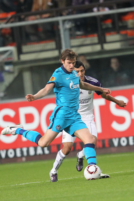 Nicolas Lombaerts